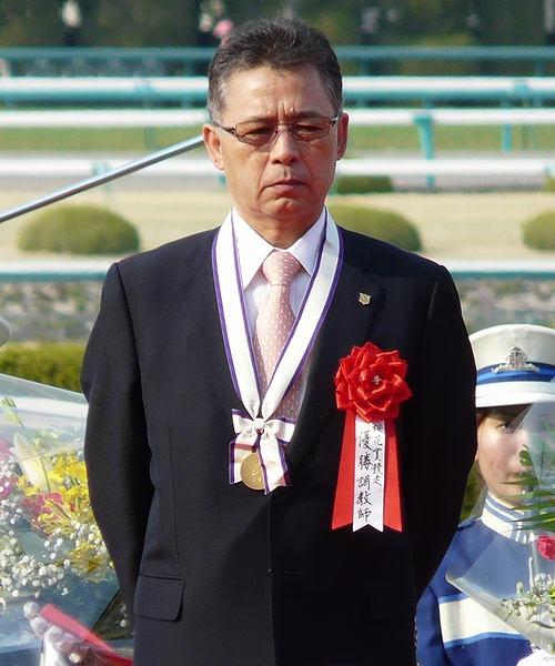 Sei-Ishizaka20120408